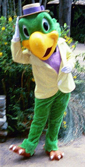 Zé Carioca as a character at Walt Disney World.